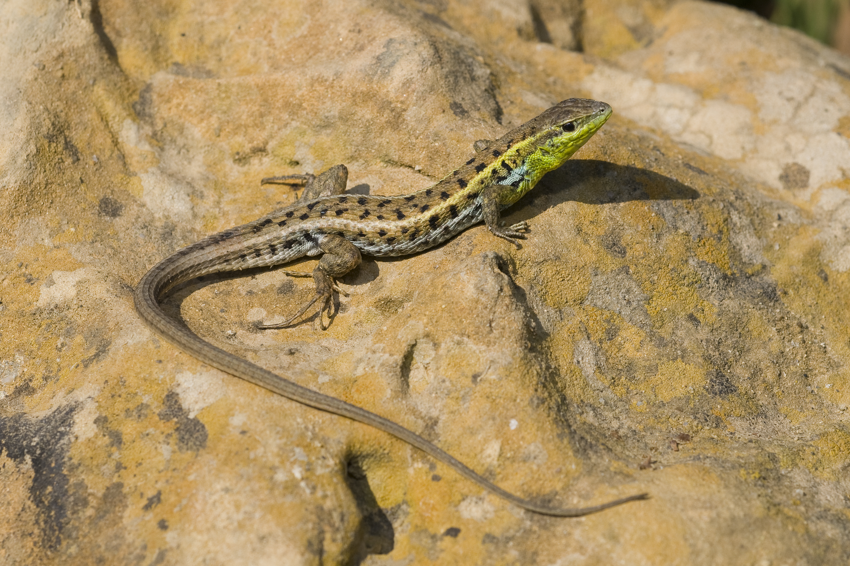 Ophisops elegans